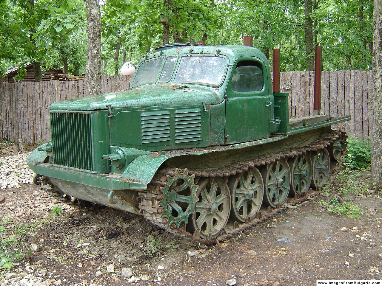 ATS artillery tractor in Bulgaria.